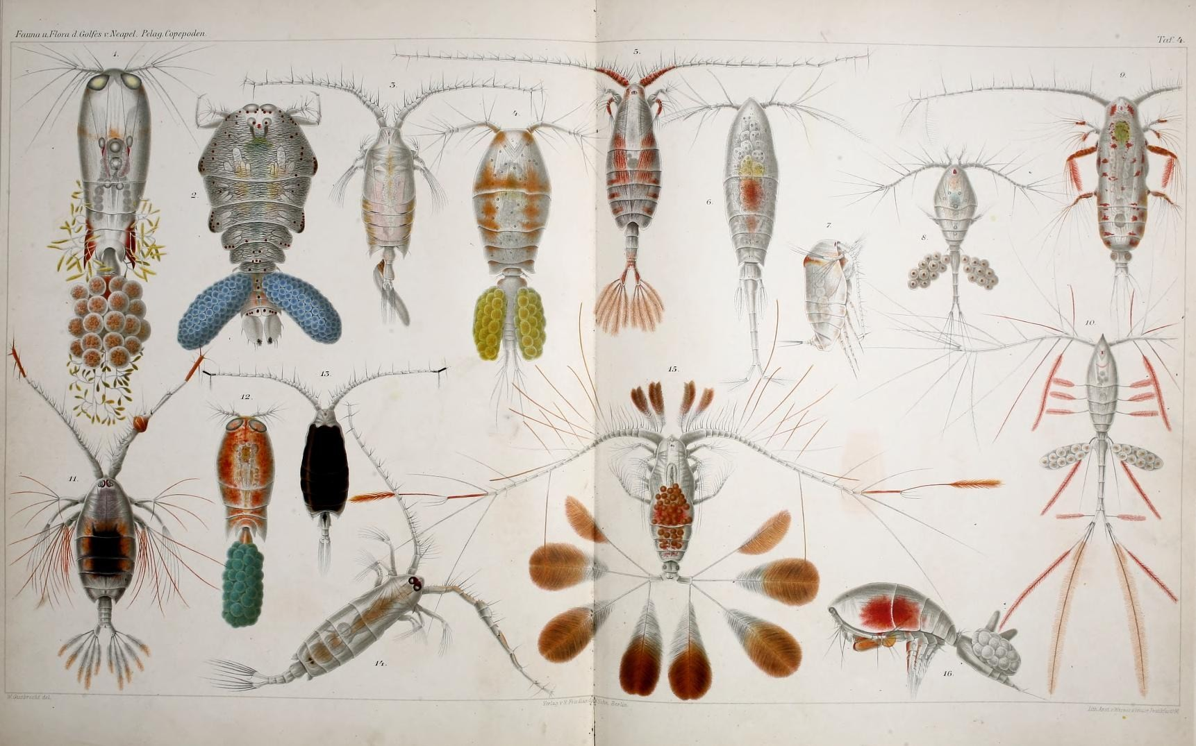 Systematik und faunistik der pelagischen copepoden des golfes von Neapel, und der angrenzenden meeres-abschnitte - Fauna und flora des golfes von Neapel (19) von Wilhelm Giesbrecht (1854–1913), Berlin, R. Friedländer & sohn, 1892 1 - Corycaeus elongatus = Corycaeus crassiusculus 2 - Sapphirina auronitens 3 - Candace pectinata 4 - Oncaea mediterranea 5 - Centropages violaceus 6 - Lubbockia squillimana 7 - Scolecithrix bradyi 8 - Oithona nana 9 - Subeucalanus crassus 10 - Oithona plumifera 11 - Pontellina plumata 12 - Corycaeus venustus 13 - Candacia ethiopica 14 - Labidocera wollastoni 15 - Calocalanus pavo 16 - Oncaea mediterranea